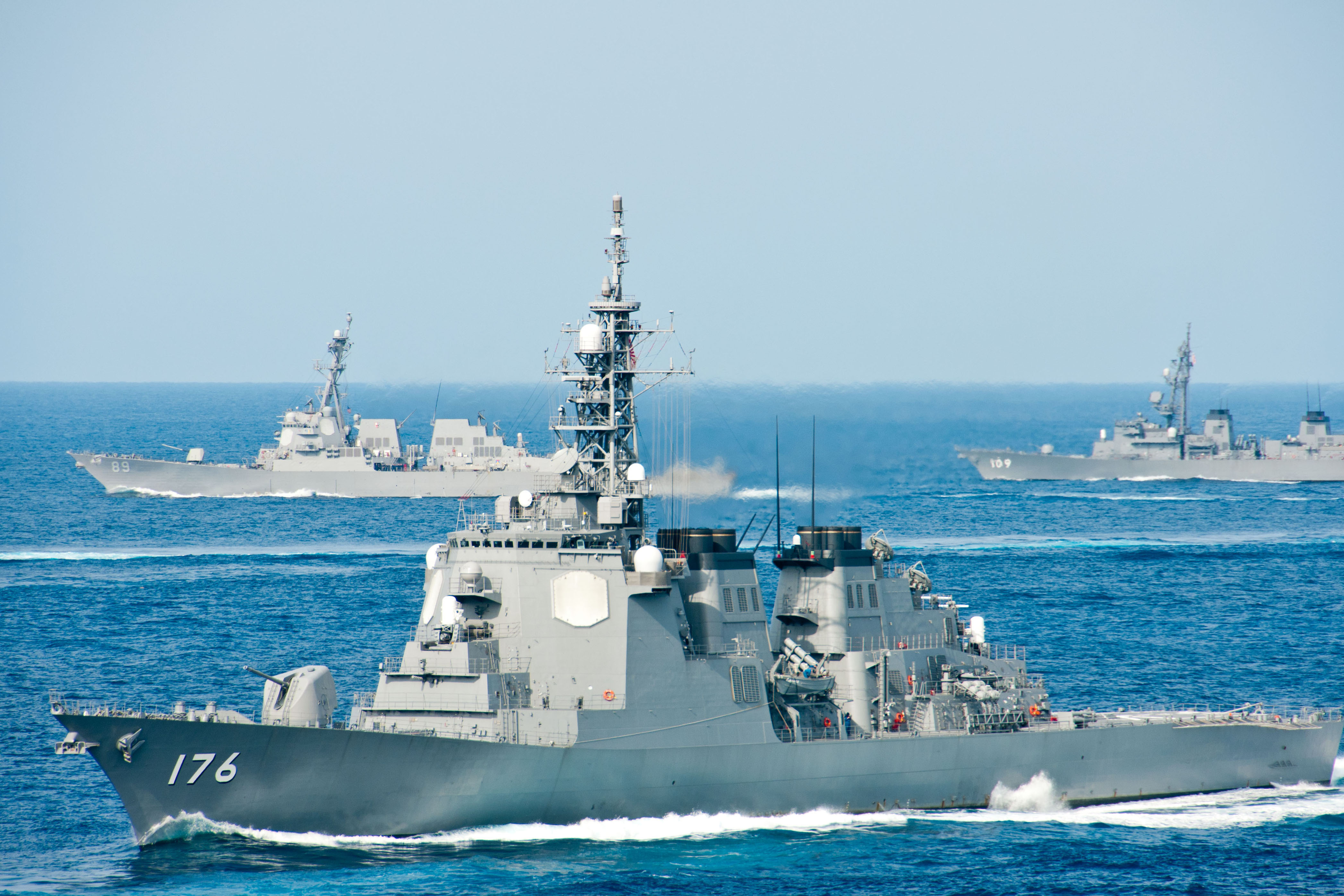 EAST CHINA SEA (Nov. 16, 2012) - Japan Maritime Self-Defense Force ship JS Chokai (DDG-176), USS Mustin (DDG-89), and JS Ariake (DD-109) steam together following the conclusion of Keen Sword, a regularly scheduled exercise that enables the United States and Japan to practice coordination procedures and improve interoperability required to effectively defend Japan or respond to a crisis in the Asia-Pacific region. (US Navy photo by Lt. Cmdr. Denver Applehans/Released) Nikon D300S